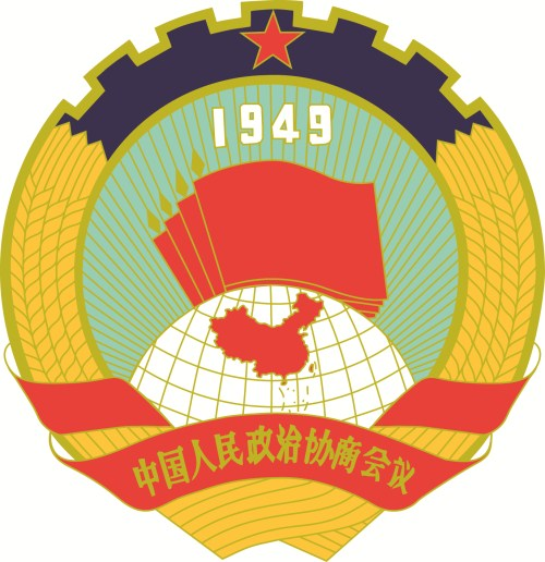 Charter of the Chinese People's Political Consultative Conference (CPPCC) logo